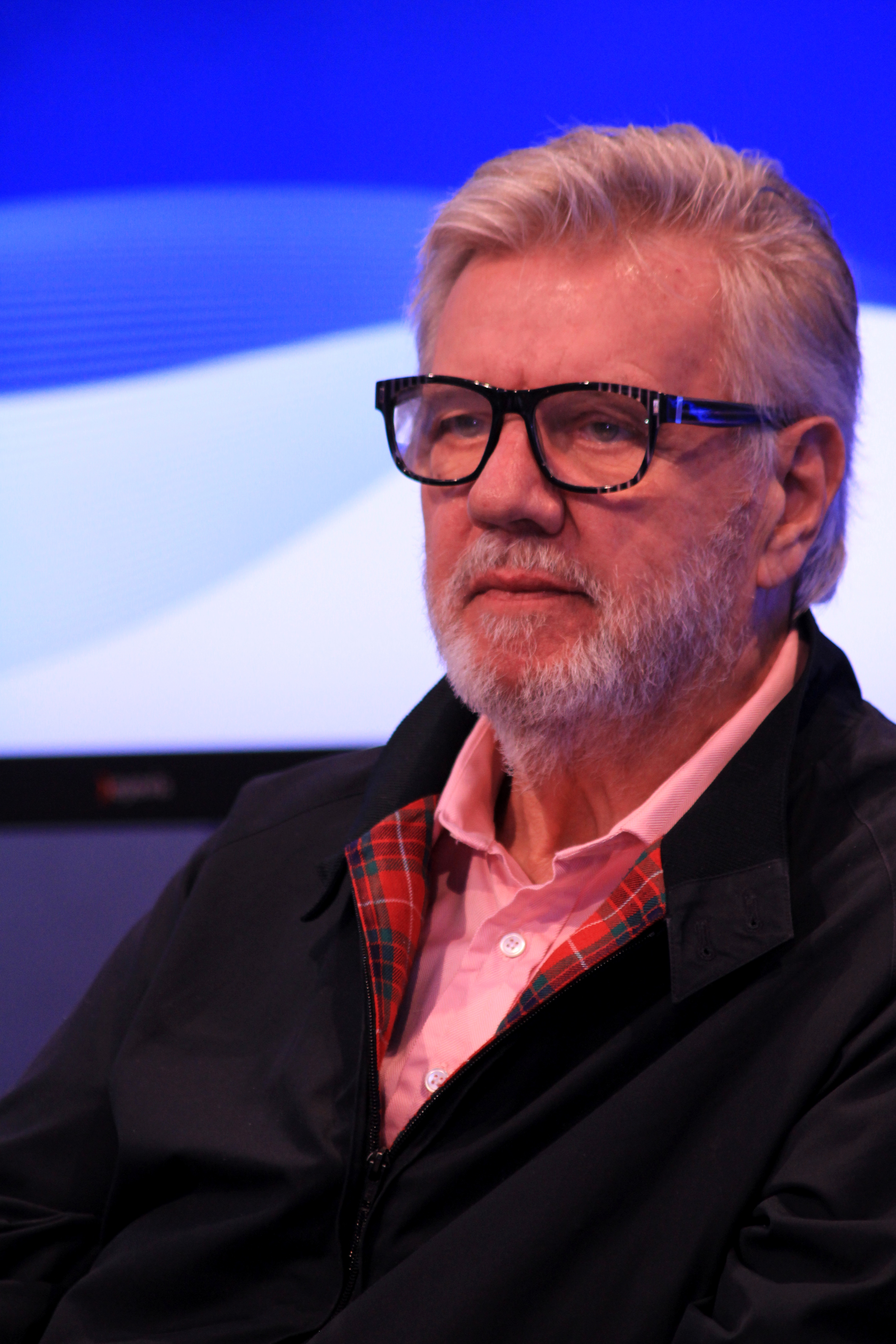 The danish actor Morten Grunwald. Well known for his role of Benny Frandsen in the "Olsenbande". Photographed on the "Leipziger Buchmesse" 2012